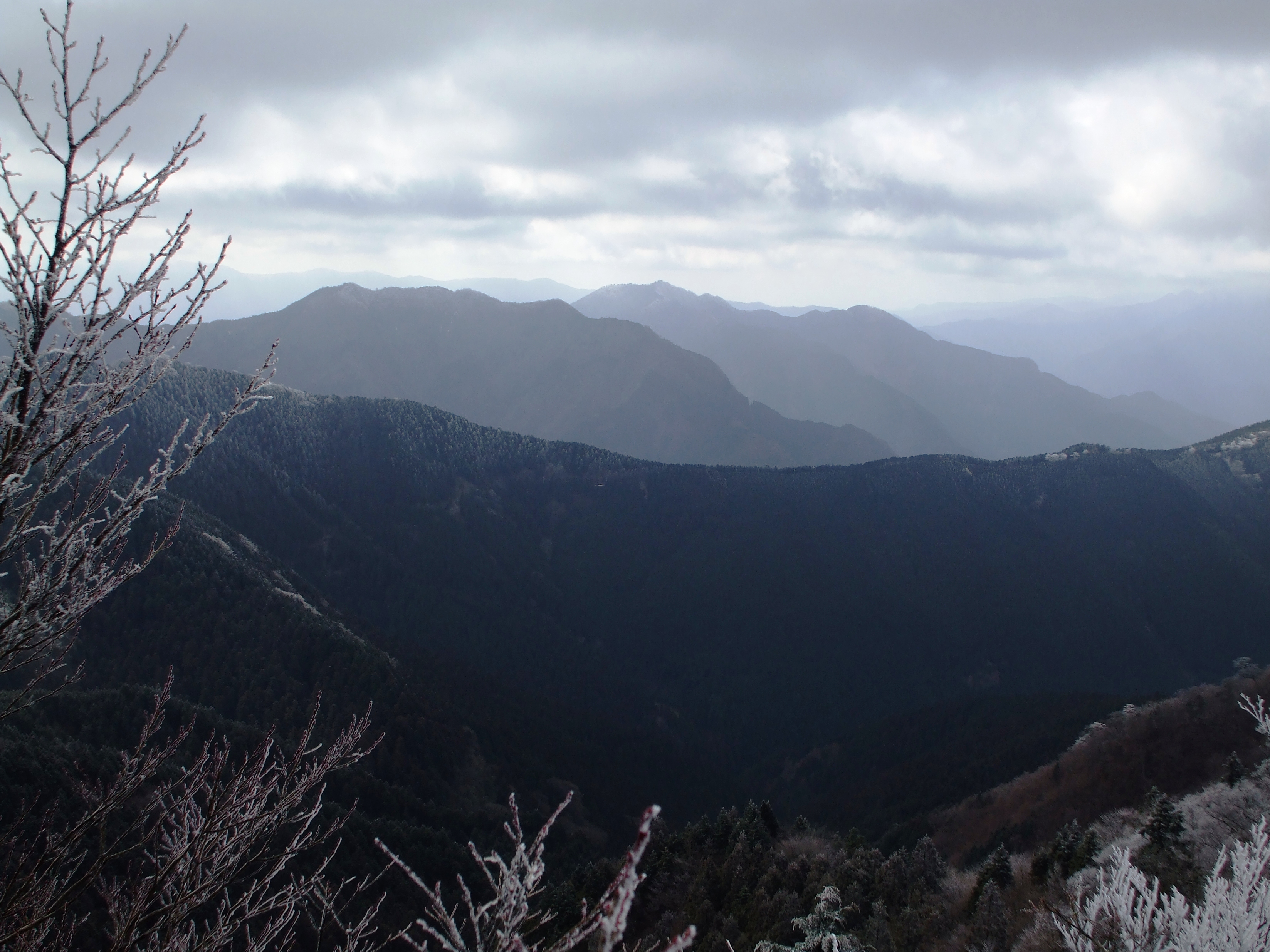 South view from Mount Azami in Daiko Mountains, Honshu, Japan.